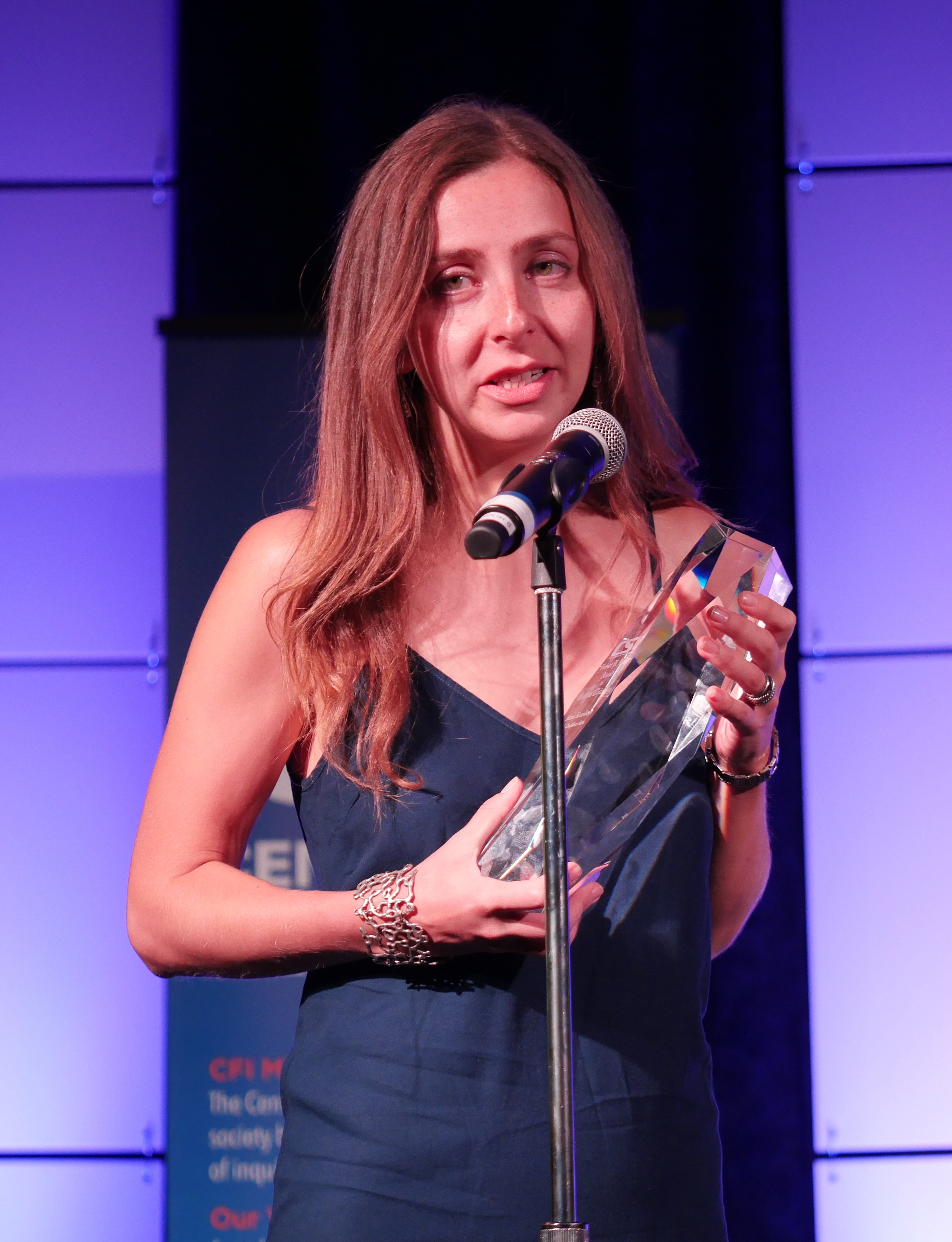 Maria Konnikova Balles Award CSICon 2017